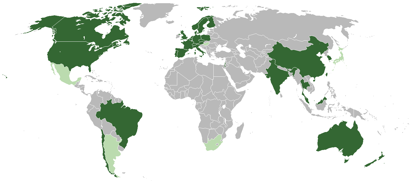 Google Maps Localization Google Maps in this country Google Maps Beta in this country No Google Maps in this country